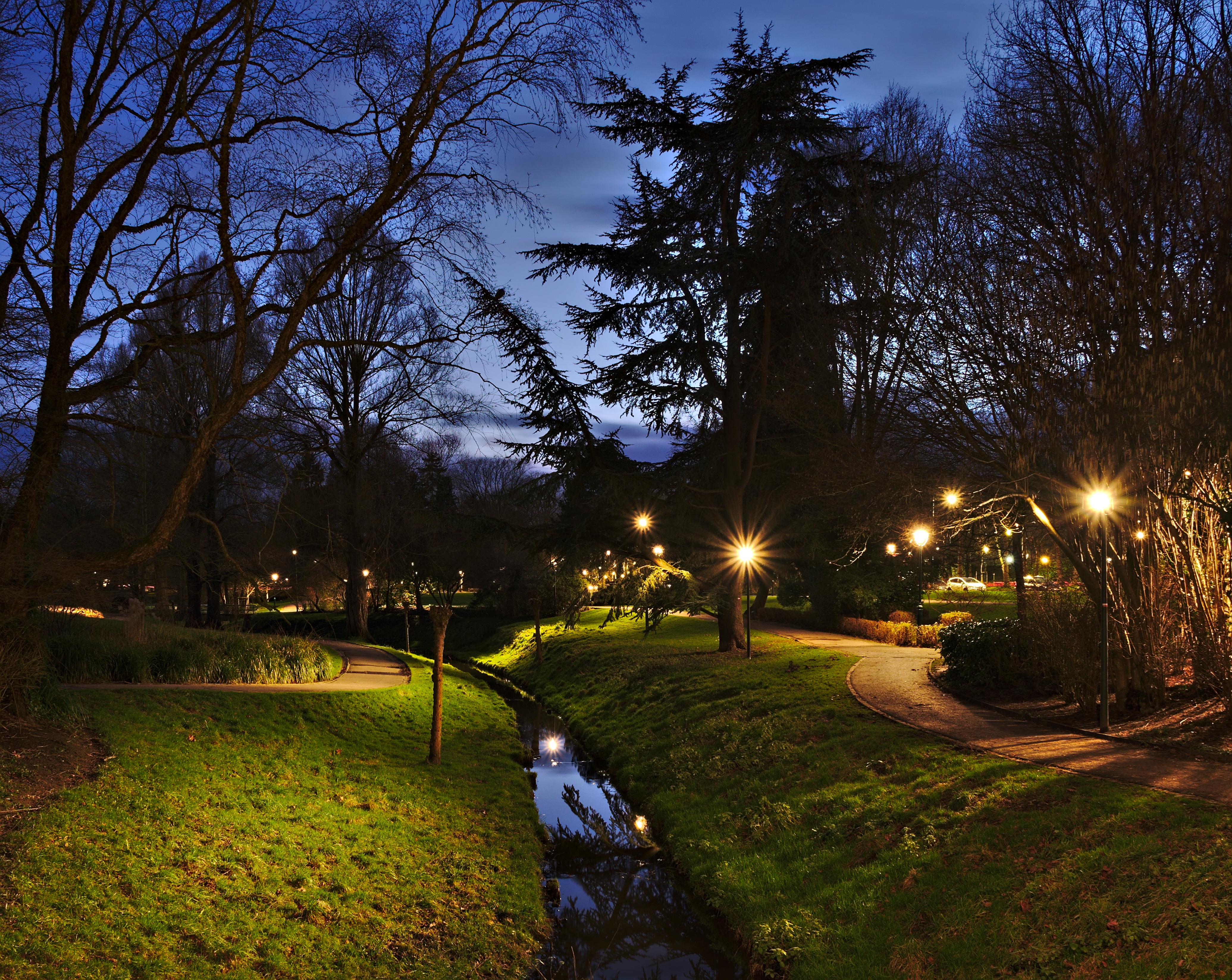 Woluwe stream passing through parc Seny during the evening nautical twilight (Auderghem, Belgium, DSCF2725)